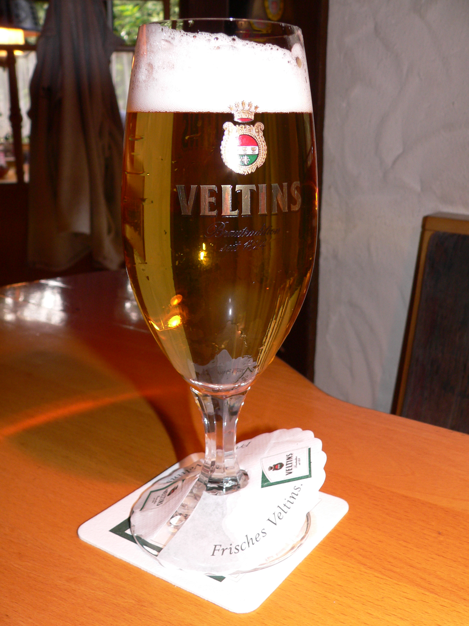 Filled tulip-shaped Veltins pilsner beer glass and beer drop catcher.